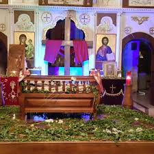 Ras Baalbek is the former Byzantine "Conna" mentioned in the council of chalcedon official documents. The convent has a miraculous church and managed by the Greek Catholic fathers of the Basilian Aleppian Order.